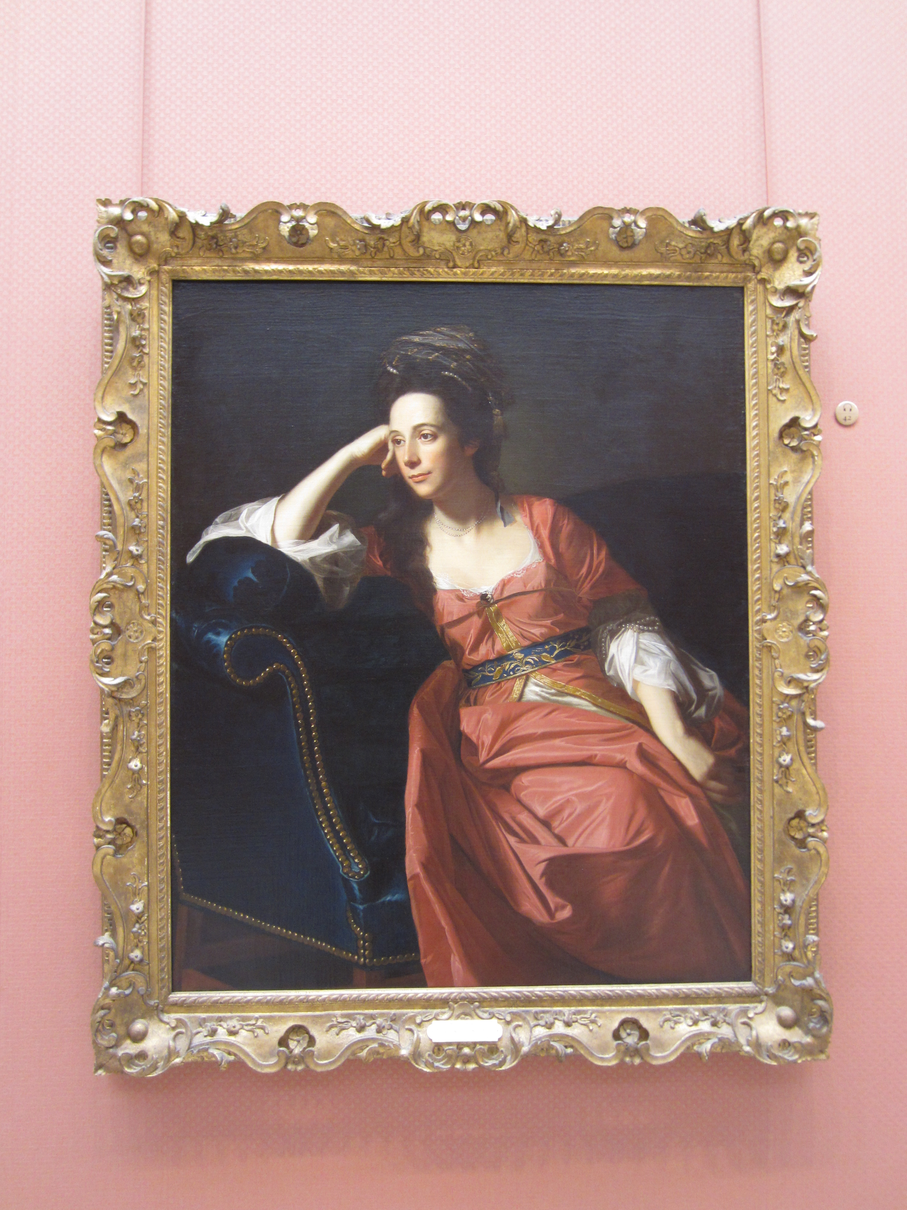 San Diego, California (October 2016)